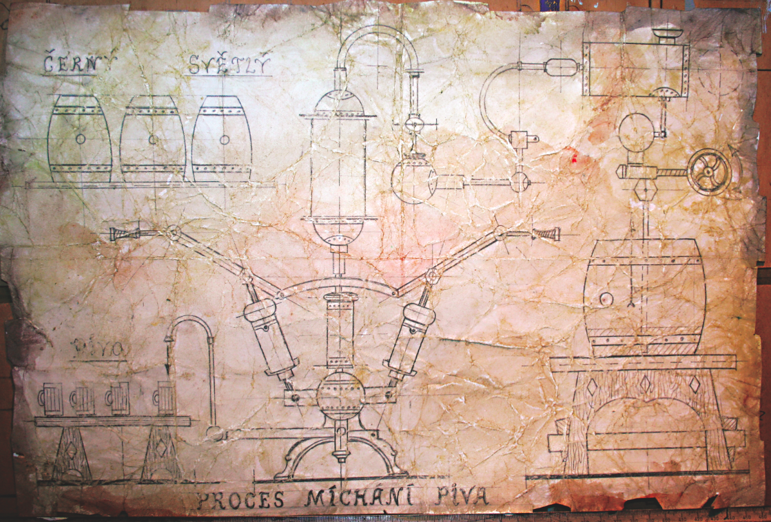 Одно из первых устройств для смешивания пива в Европе.